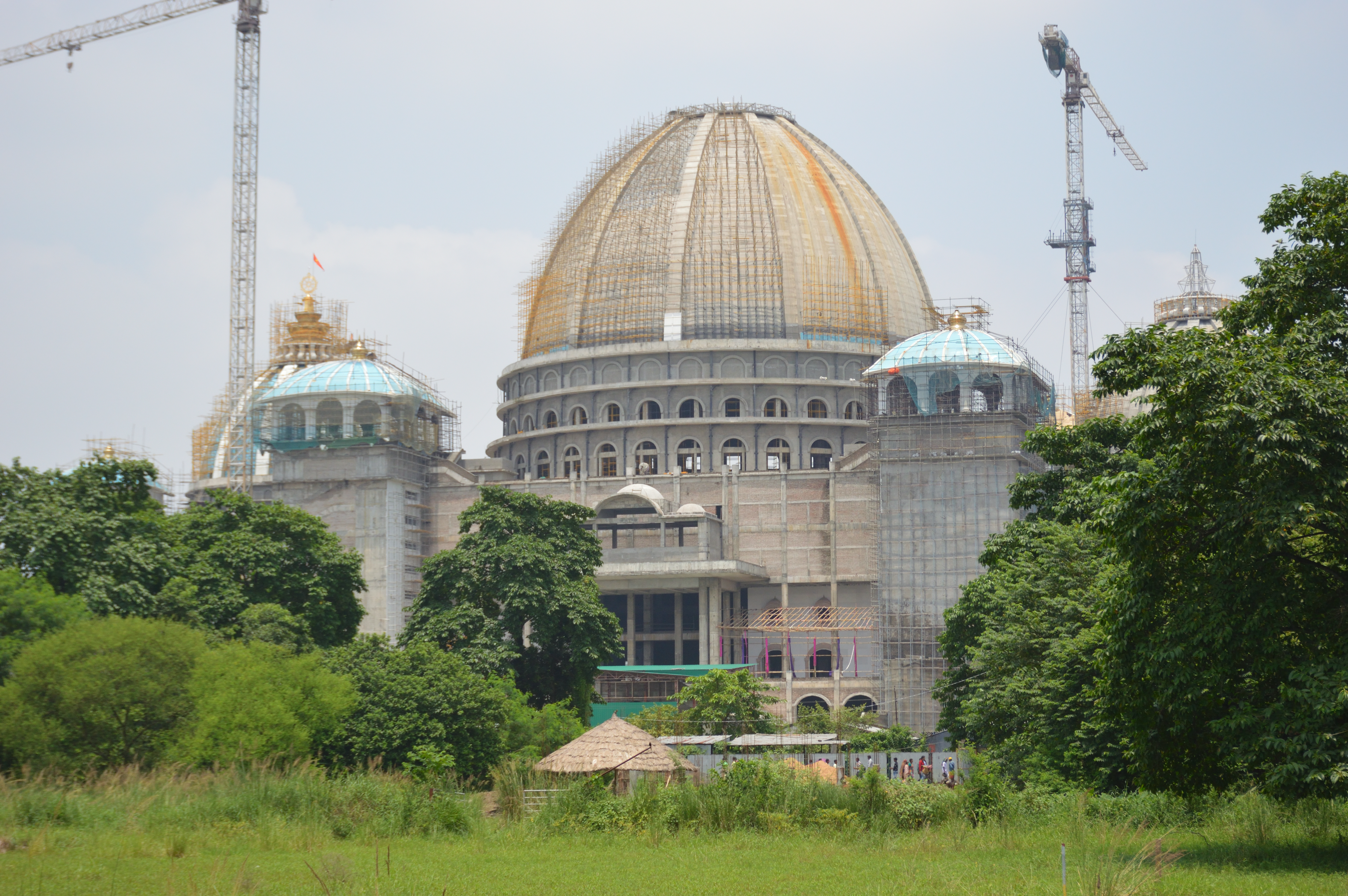 Photographed Sreemayapur, district Nadia, West Bengal.